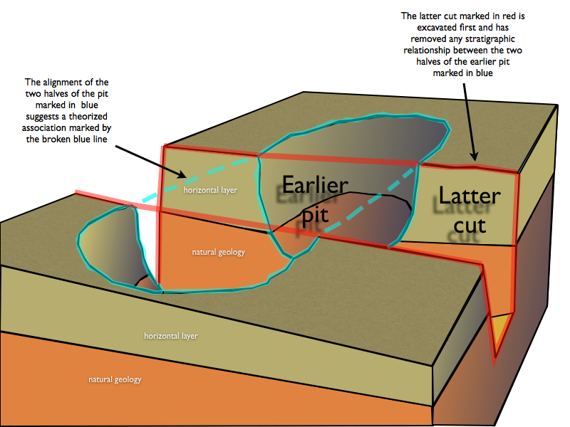 Alignment example: Two halves of a pit separated by a later cut can have their archaeological association inferred by noting their alignments